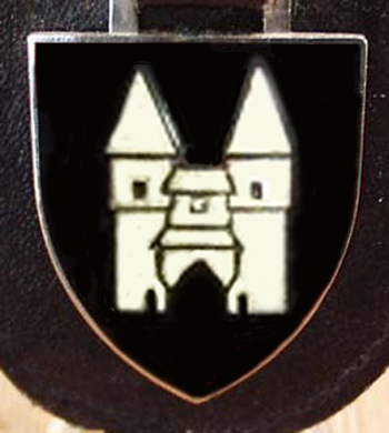 Staff & HQ Company 12th Armored Brigade